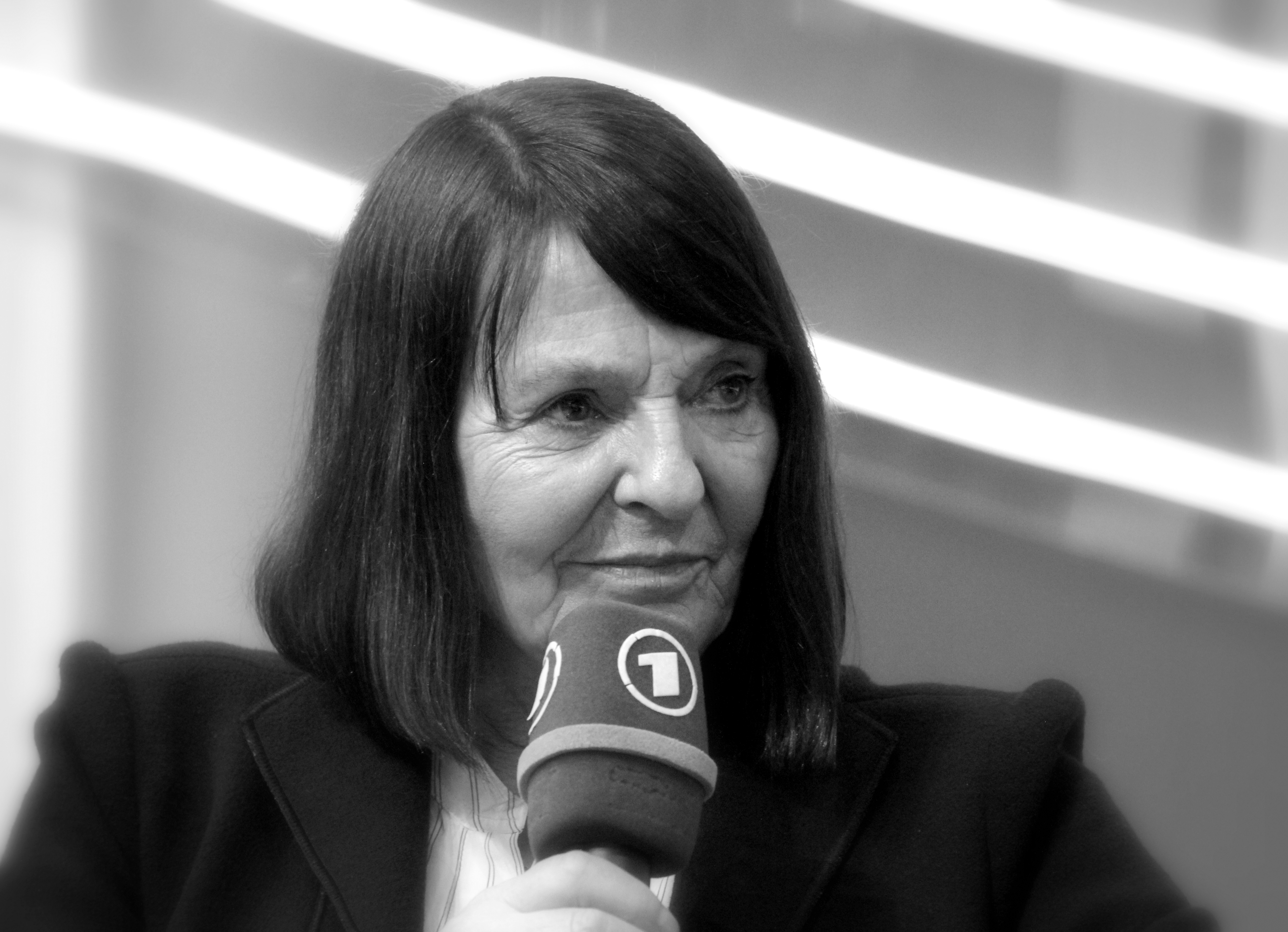 Monika Maron Leipzig Book Fair 2018